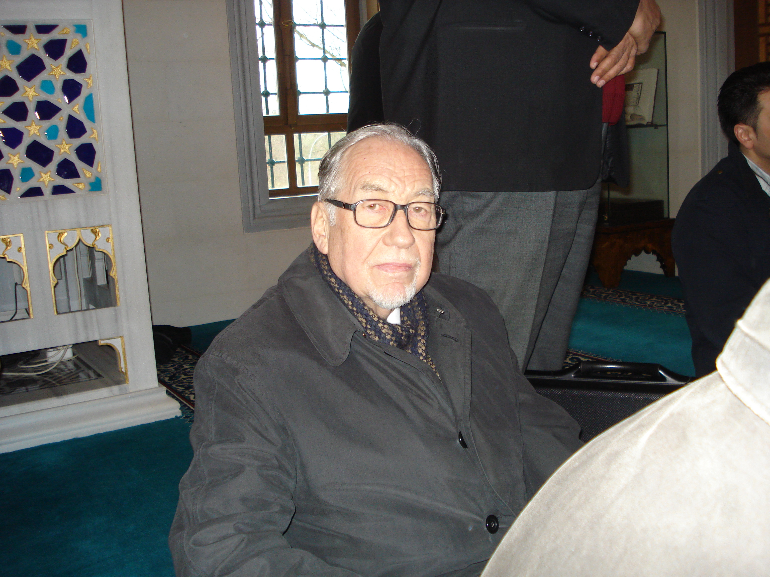 Murad Wilfried Hofmann in Berlin during a meeting with prince Al Hasan Ben Talal